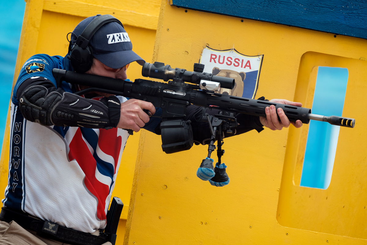 A Norwegian Open division competitor at the 2017 IPSC Rifle World Shoot in Russia